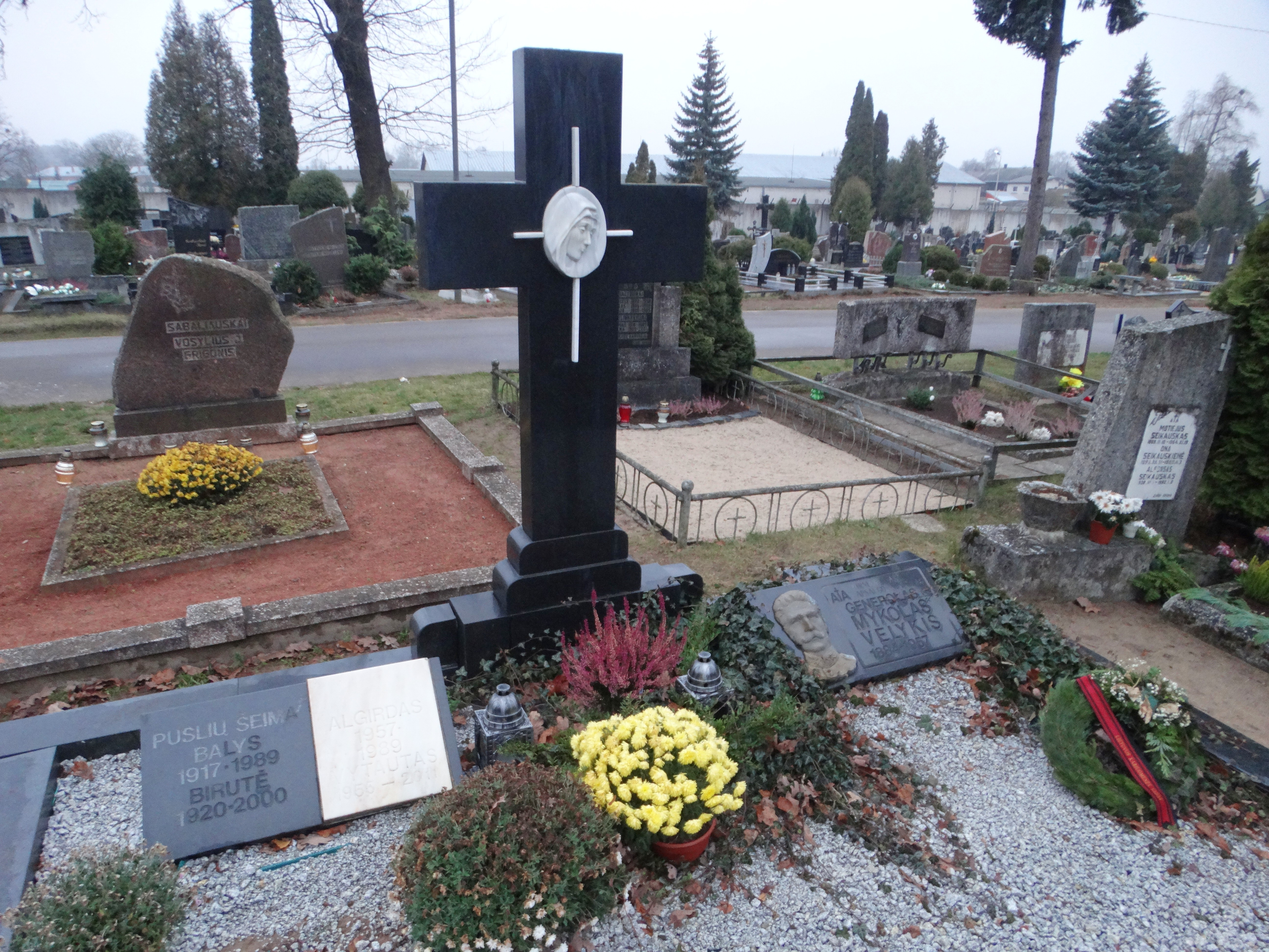 Tomb of Mykolas Velykis, cemetery in Panemunė, Kaunas, Lithuania